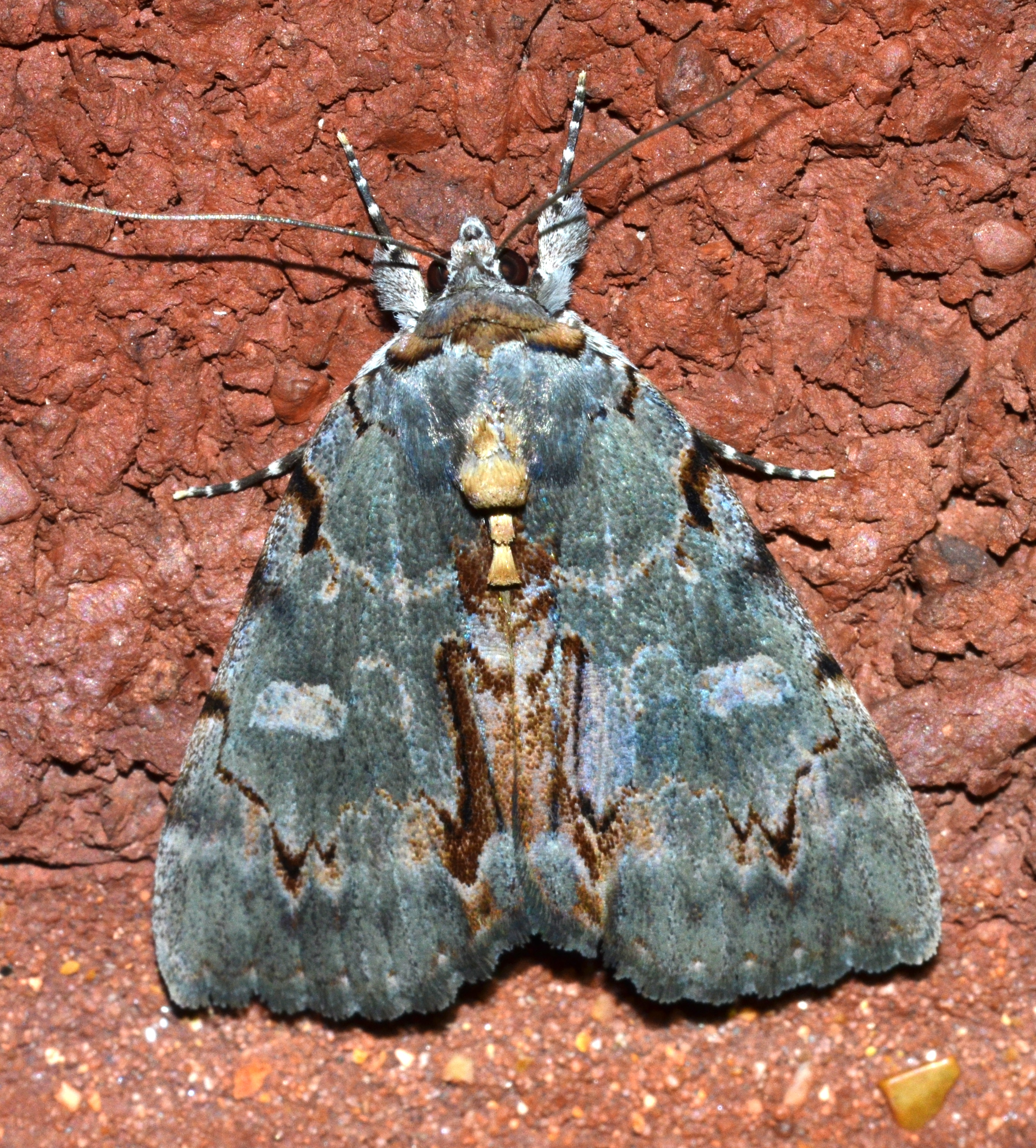 Mothing Night 6/13/14